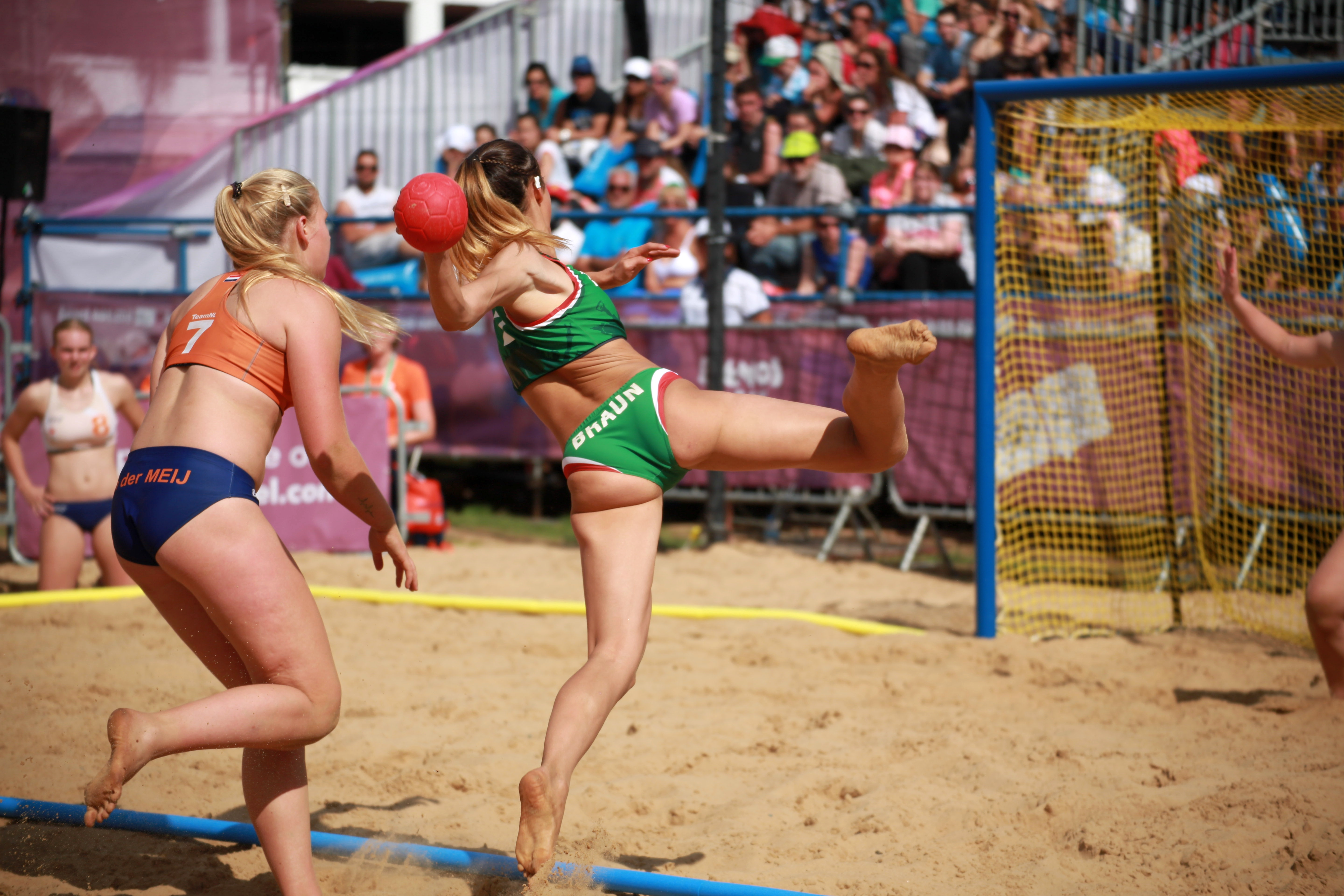 Beach handball at the 2018 Summer Youth Olympics in Buenos Aires at 13 October 2018 – Girls Bronze Medal Match – Hungary-Netherlands 2:0